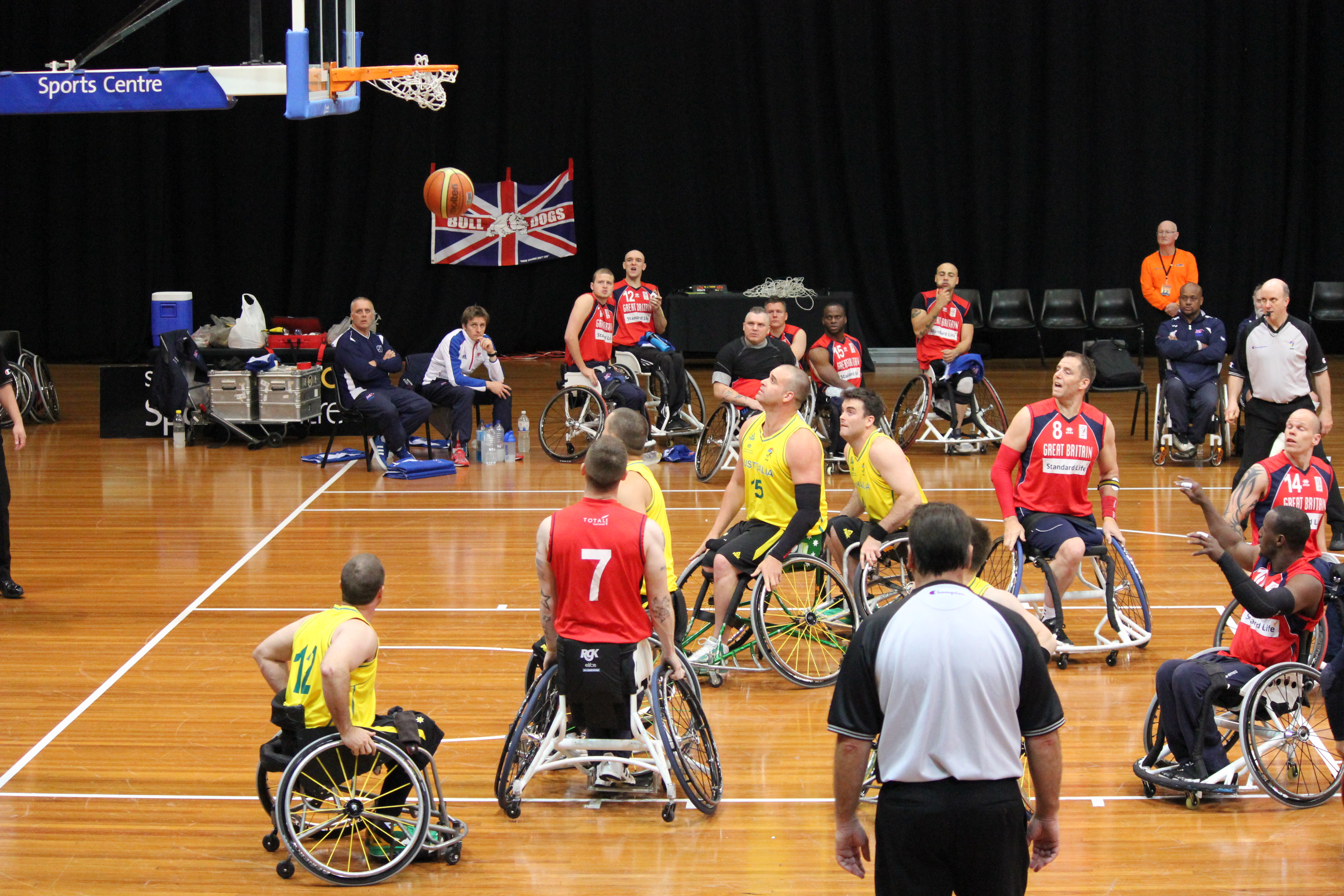 65–51 Australia men;s 19 July 2012 win over the Great Britain men's national wheelchair basketball team at Sydney;s Olympic Park. 15 Brad Ness of Australia and 12 Grant Mizens of Australia. 7 Terry Bywater, 13 Kyle Marsh, 14 John Hall, 10 Abdi Jama, 15 Ade Oregembe for GB.